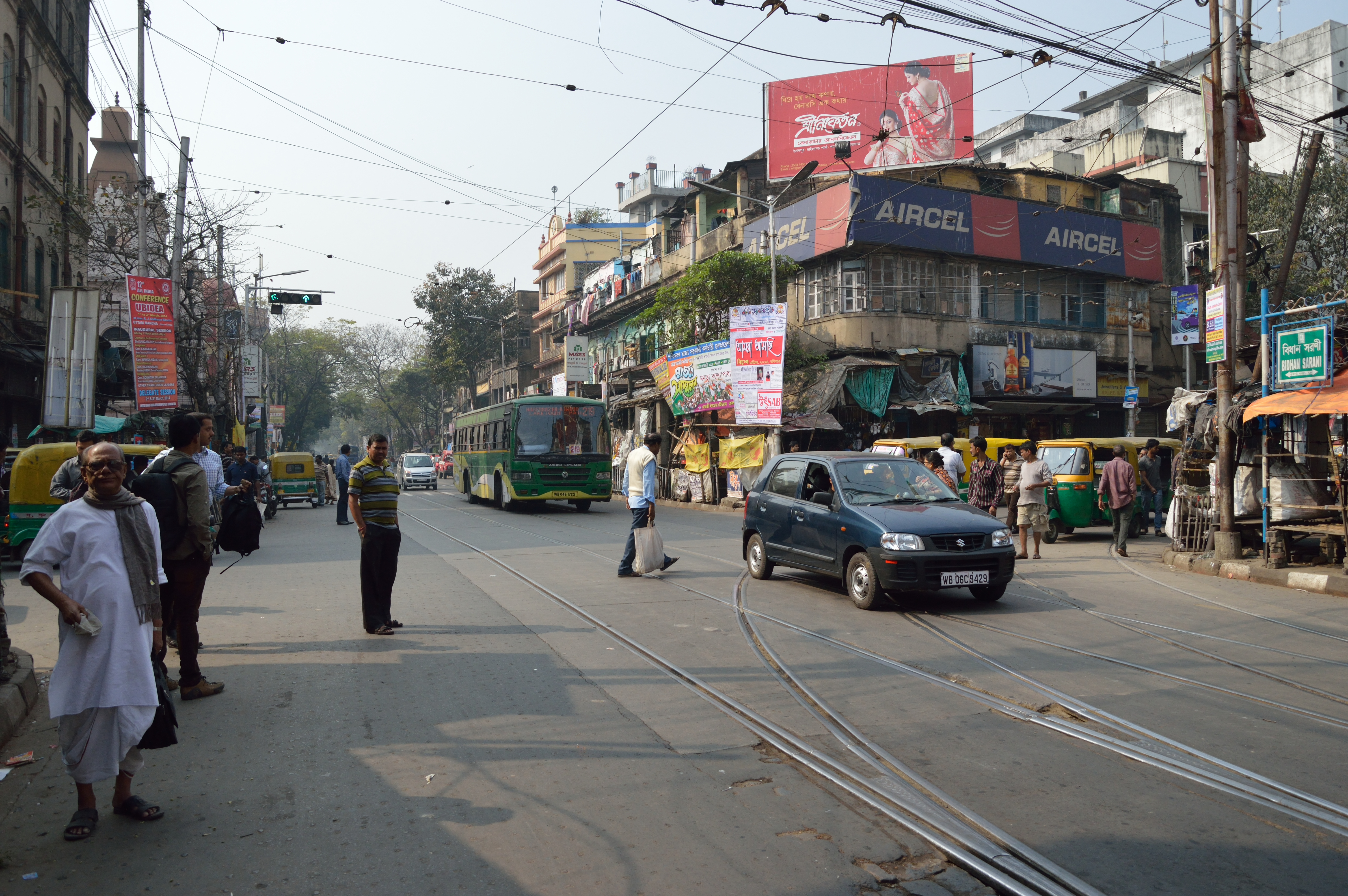 This photograph has been taken during the 'Wikipedia/Wikimedia Photowalk' event for the 'Wikipedia Takes Kolkata III' campaign on 23 February 2014, in northern part of Kolkata.